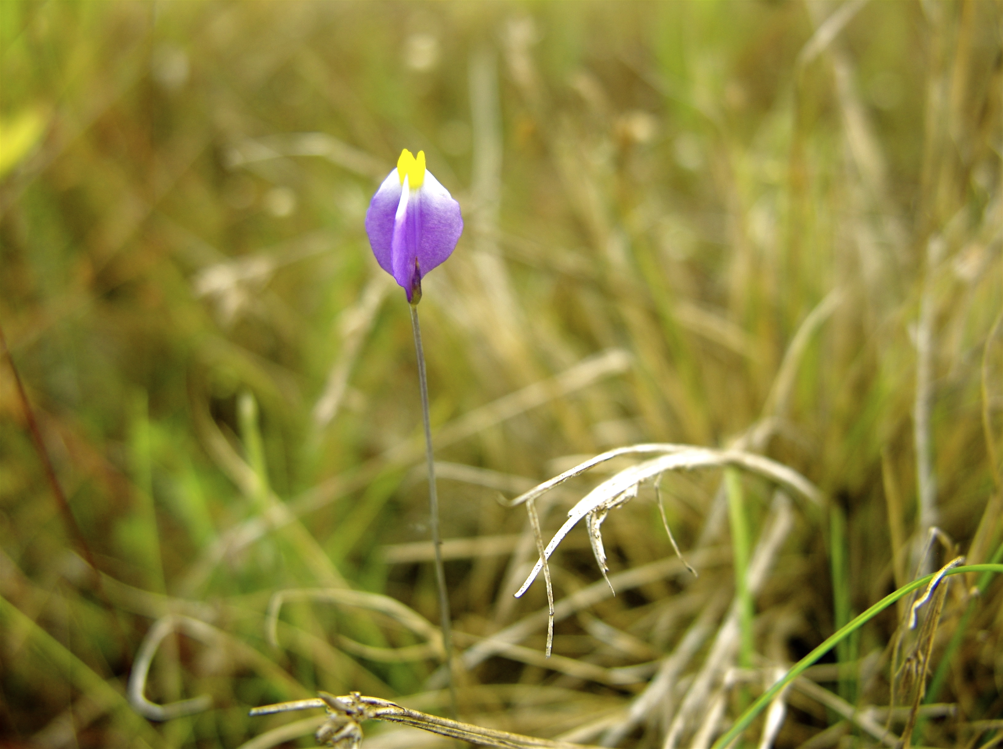 Burmannia bicolor, near Iwokrama field station, Guyana.